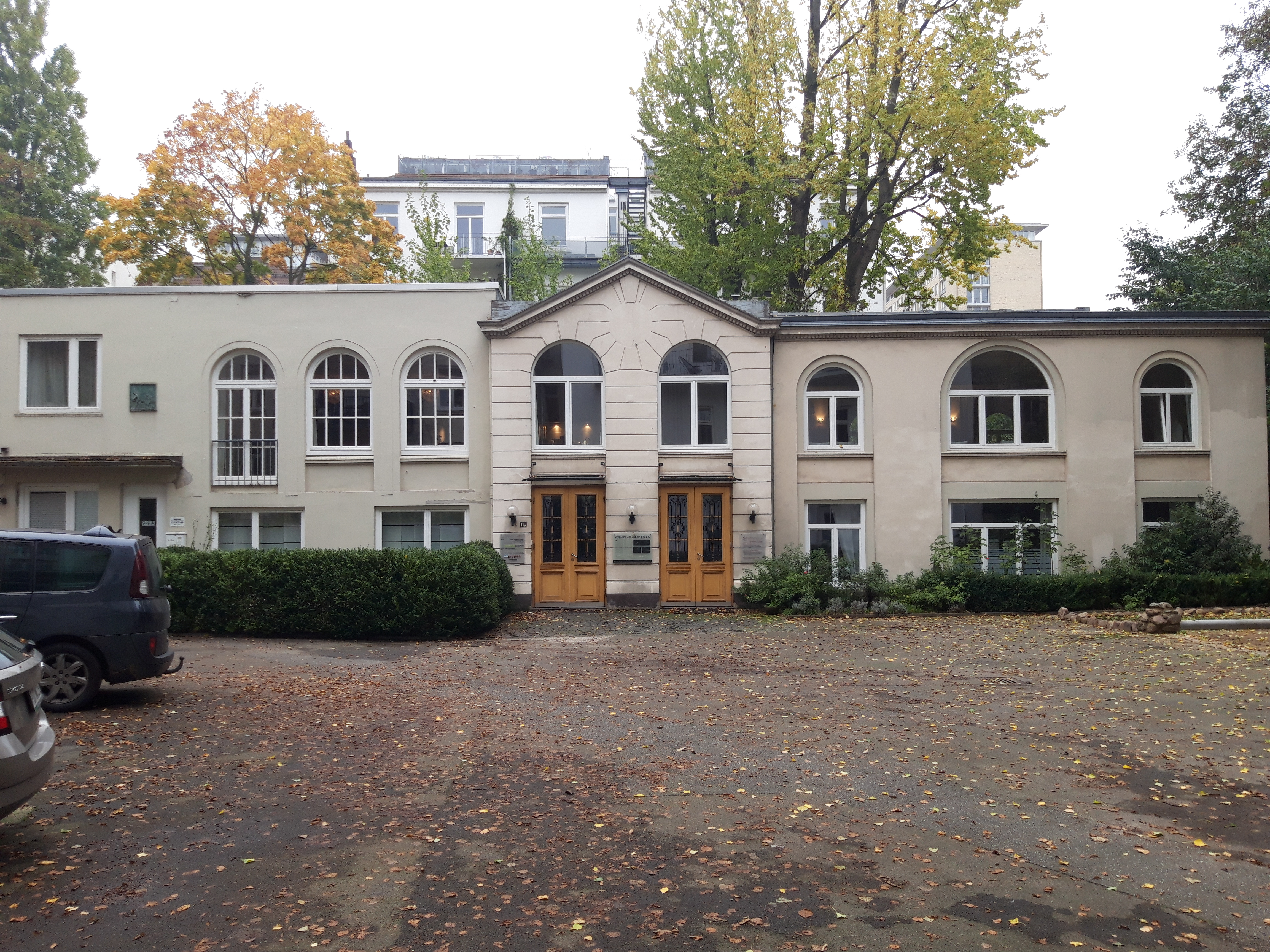 a former synagogue (Klaus) in the backyard of Rutschbahn 11, Hamburg